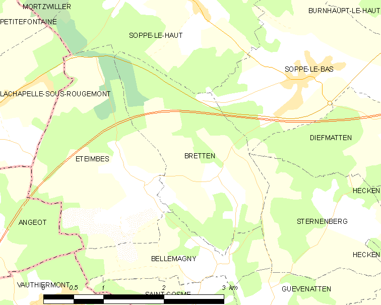 Map of French municipality